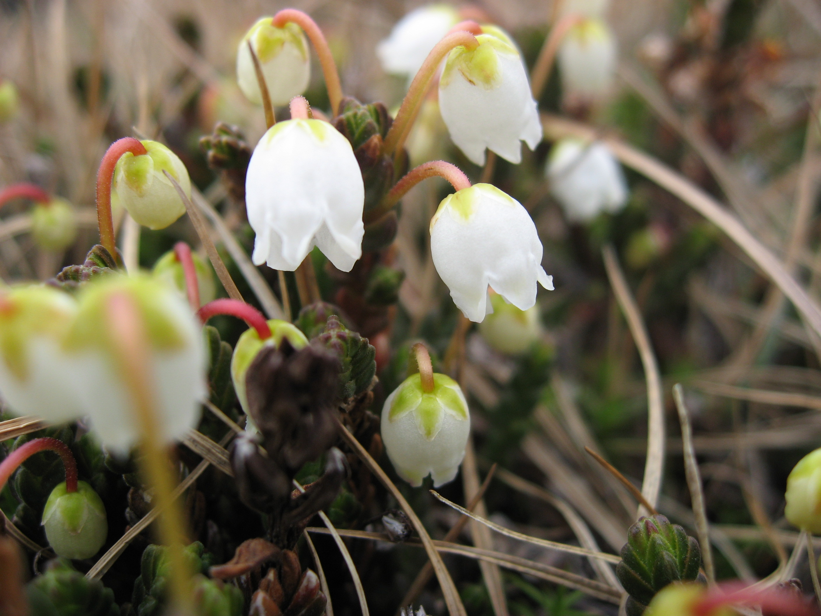 Cassiope tetragona close-up photograhed near Upernavik, Greenland.